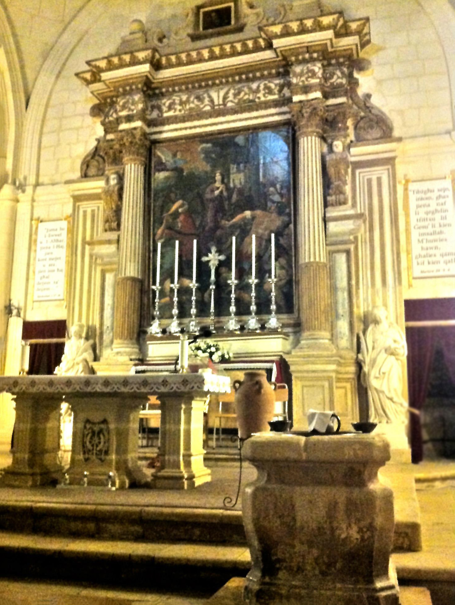 Main altar of St. Catherine's Old Church in Zejtun, Malta